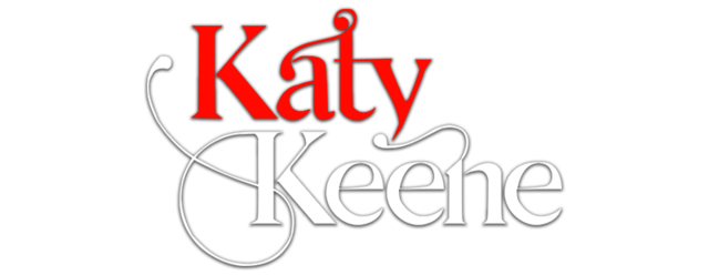 Katy Keene logo